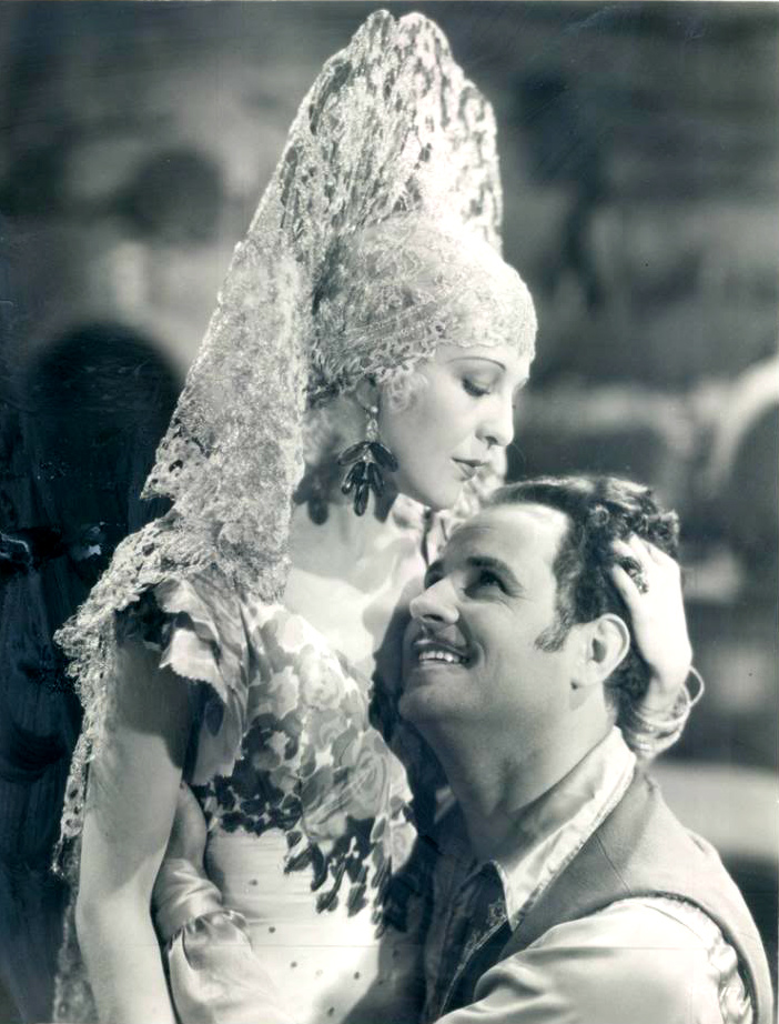 Photo of Natalie Moorhead and Victor Varconi from the 1930 film Captain Thunder.